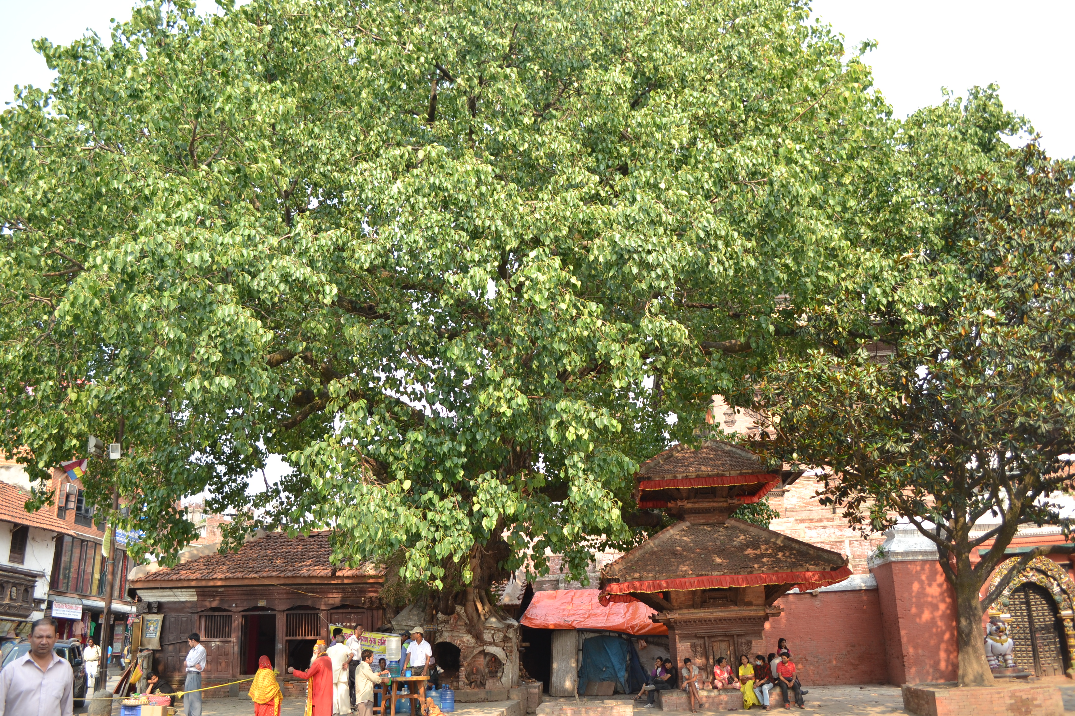 Bar-pipal trees at Basantapur, Kathmandu: the holy trees of Hindus generally planted side by side.